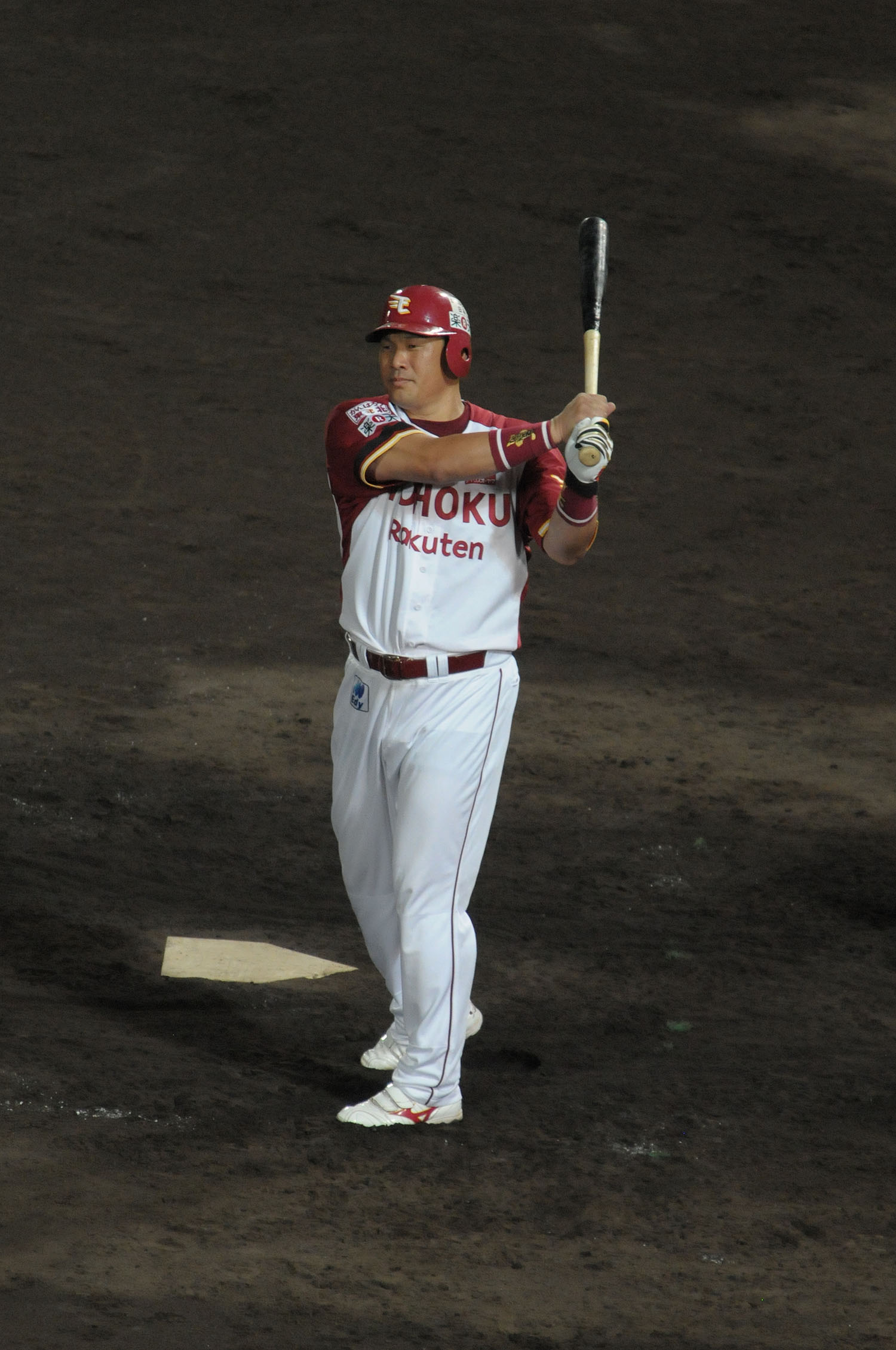 Takeshi Yamasaki, infielder of the Tohoku Rakuten Golden Eagles, at Akita Prefectural Baseball Stadium.